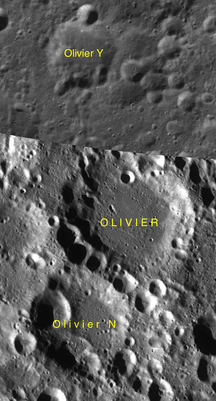 Part of the chart LAC-17 used for the presentation